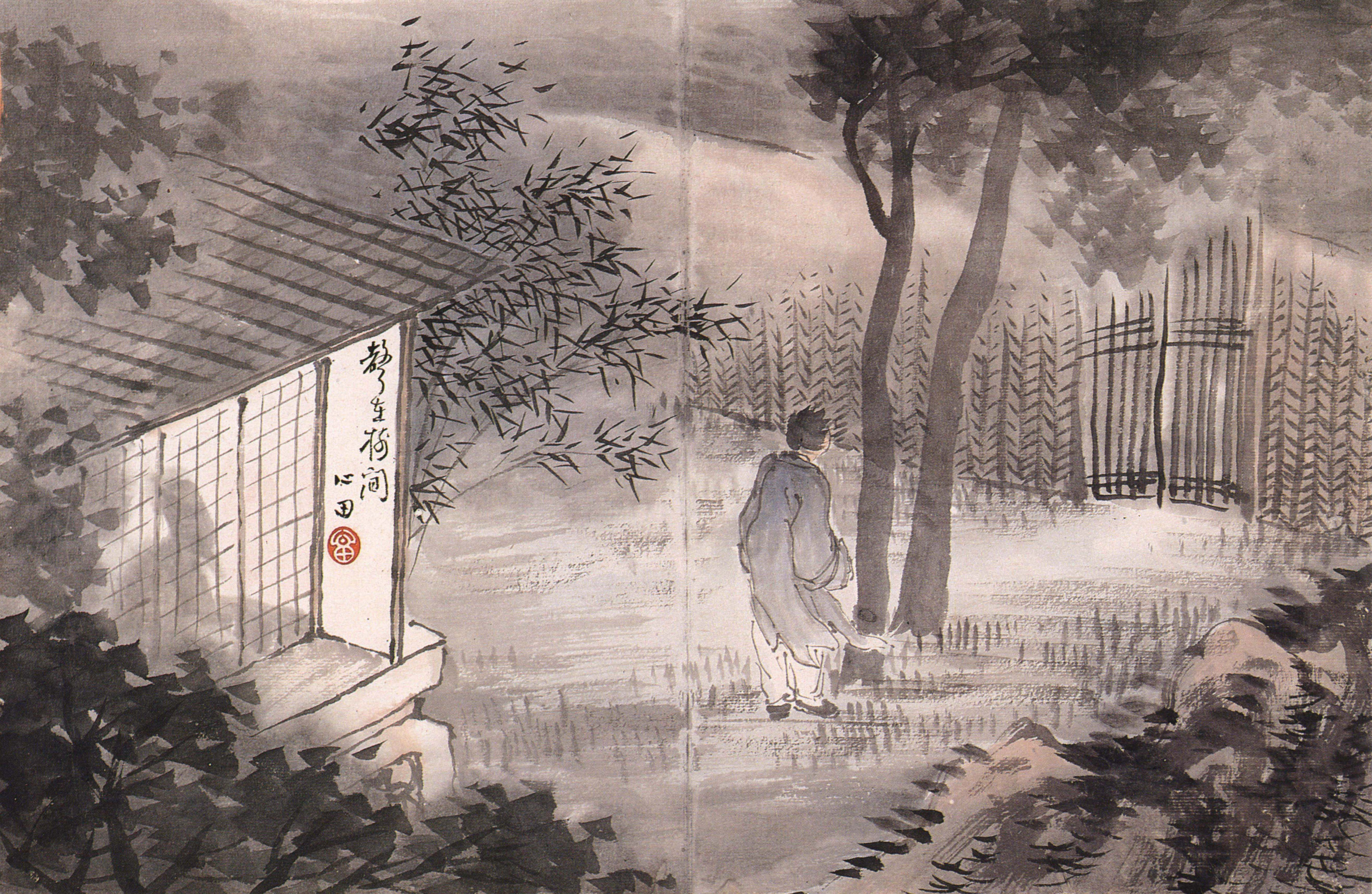 Seongjaesugan. The theme can be compared with Kim Hongdo Chuseongbu... and with Seongjaesugan (1911) !